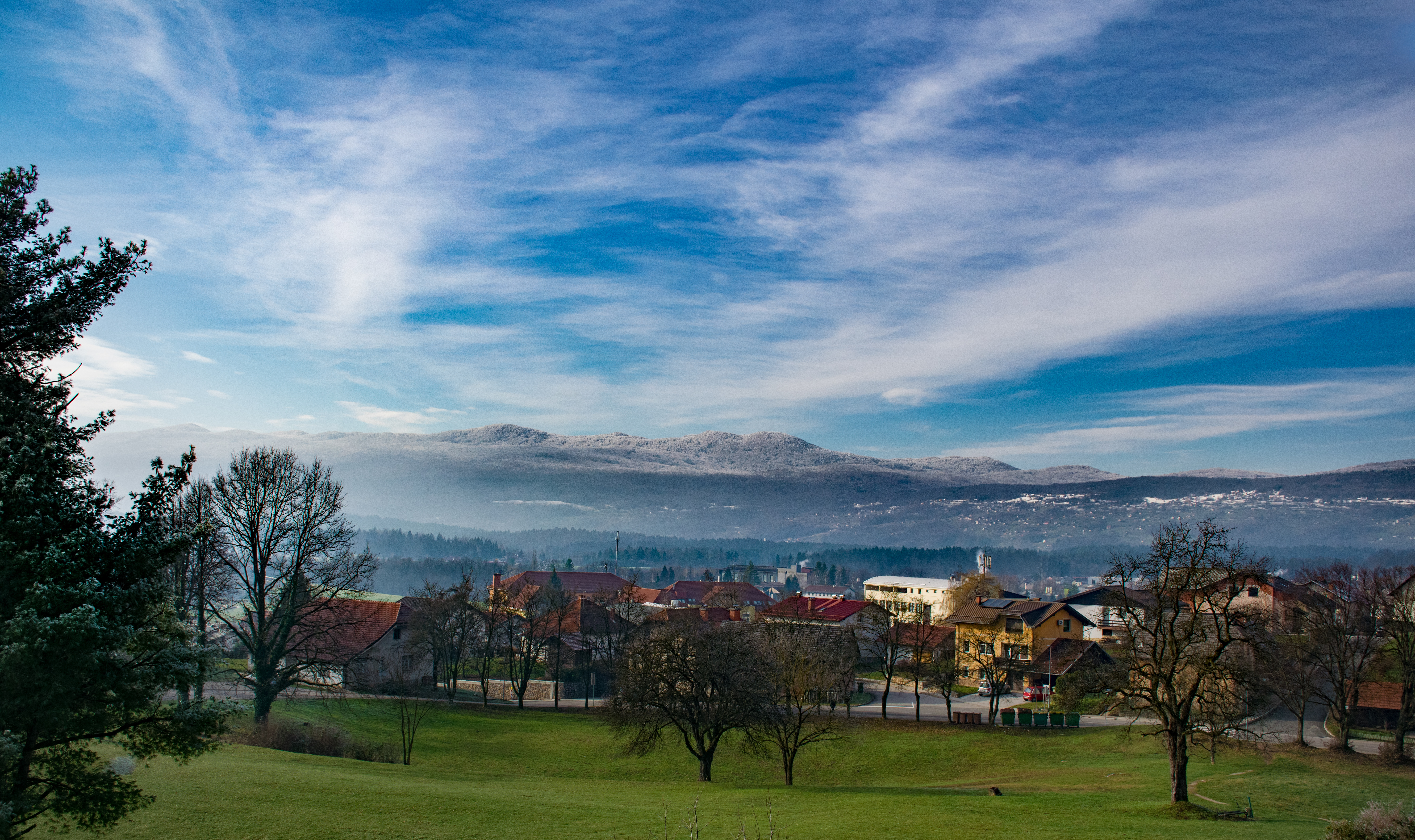 View of Črnomelj from its highest point on the NOB (Narodnoosvobodilni boj) monument at Griček.